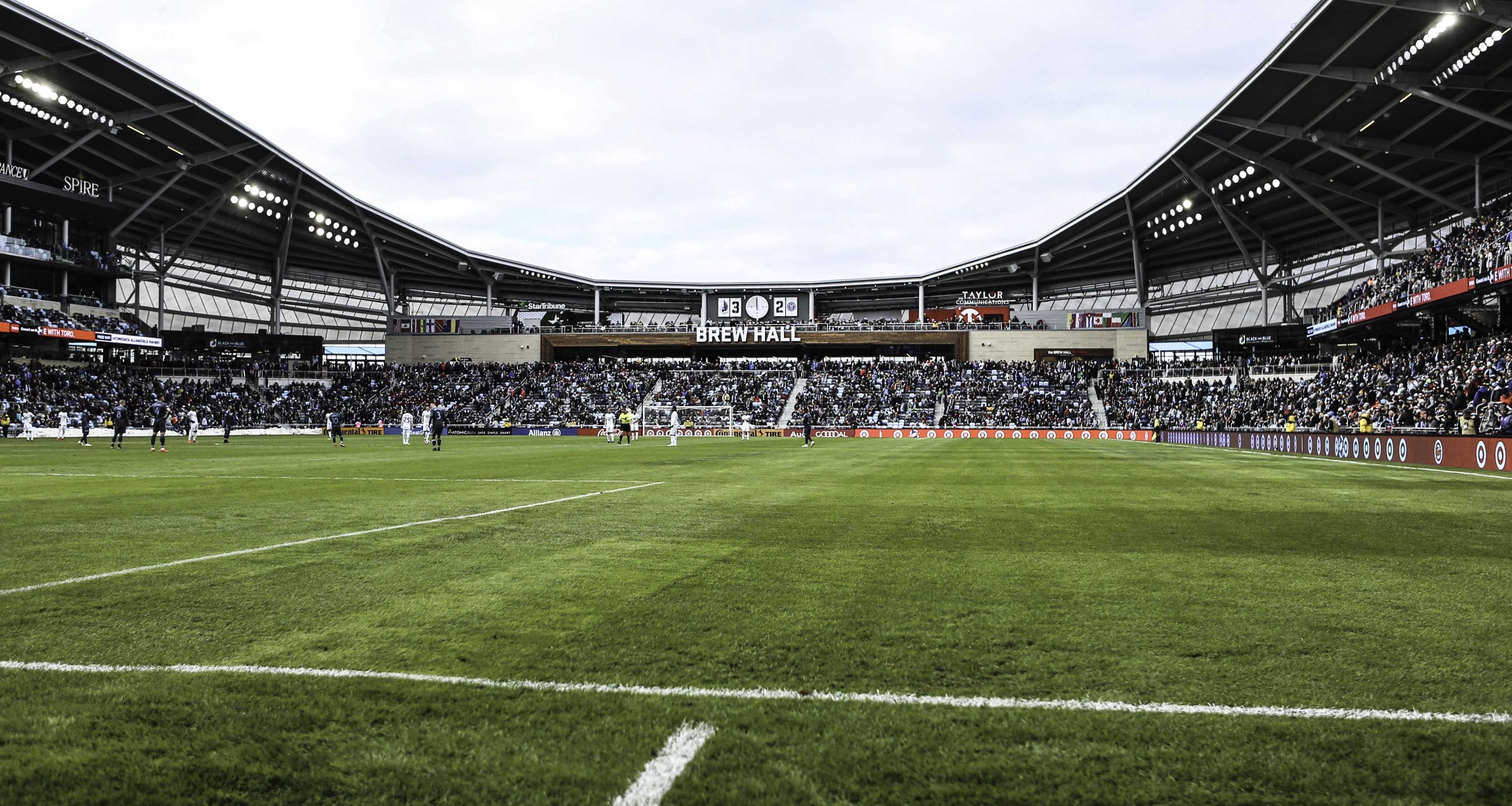 Allianz Field - MNUFC Minnesota United st. Paul Minnesota MLS